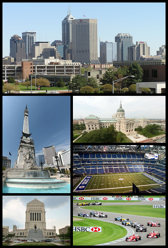 Photos of Indianapolis